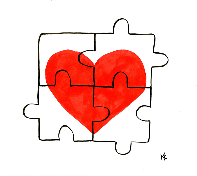 Illustration of inner peace.